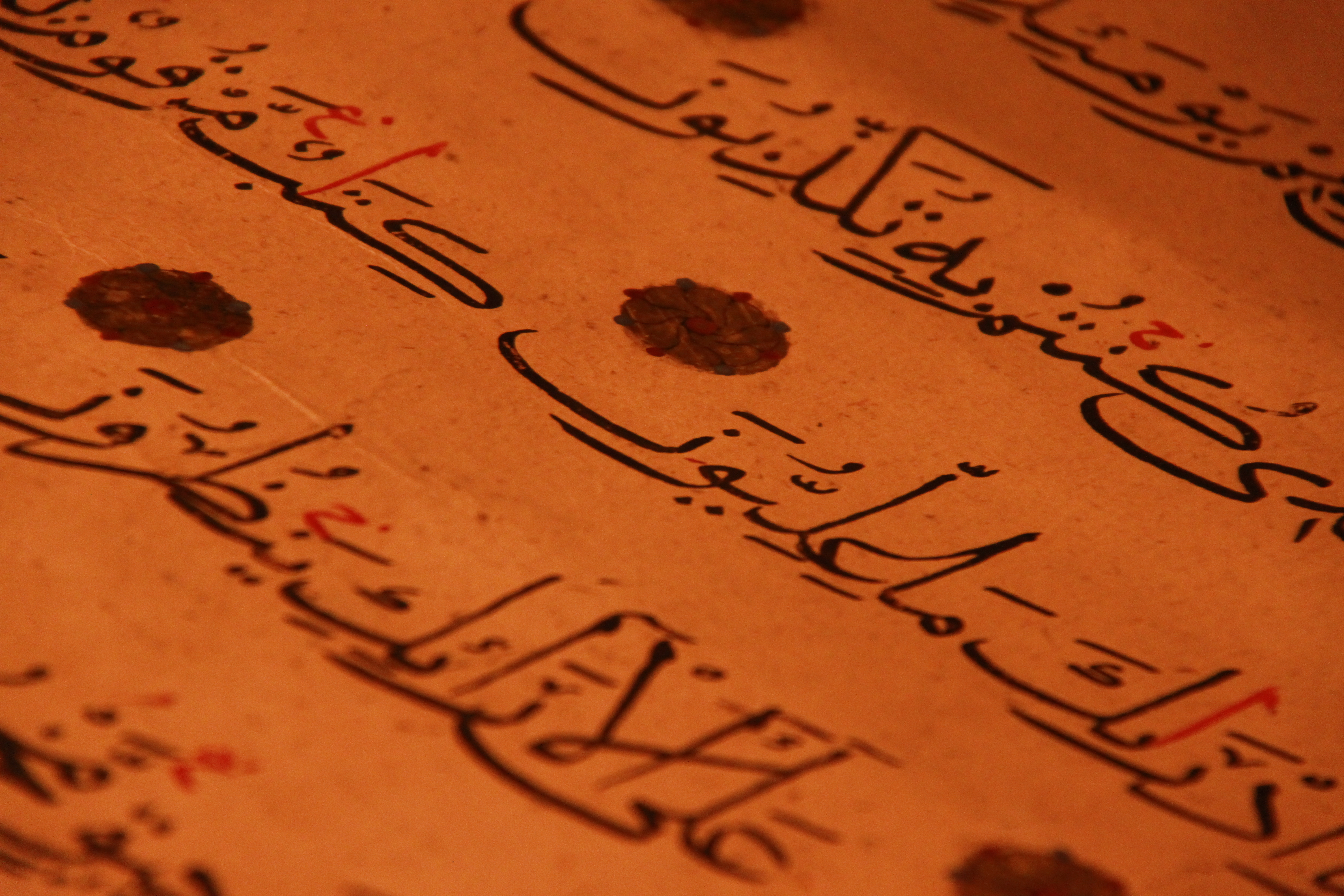 London - September 2010